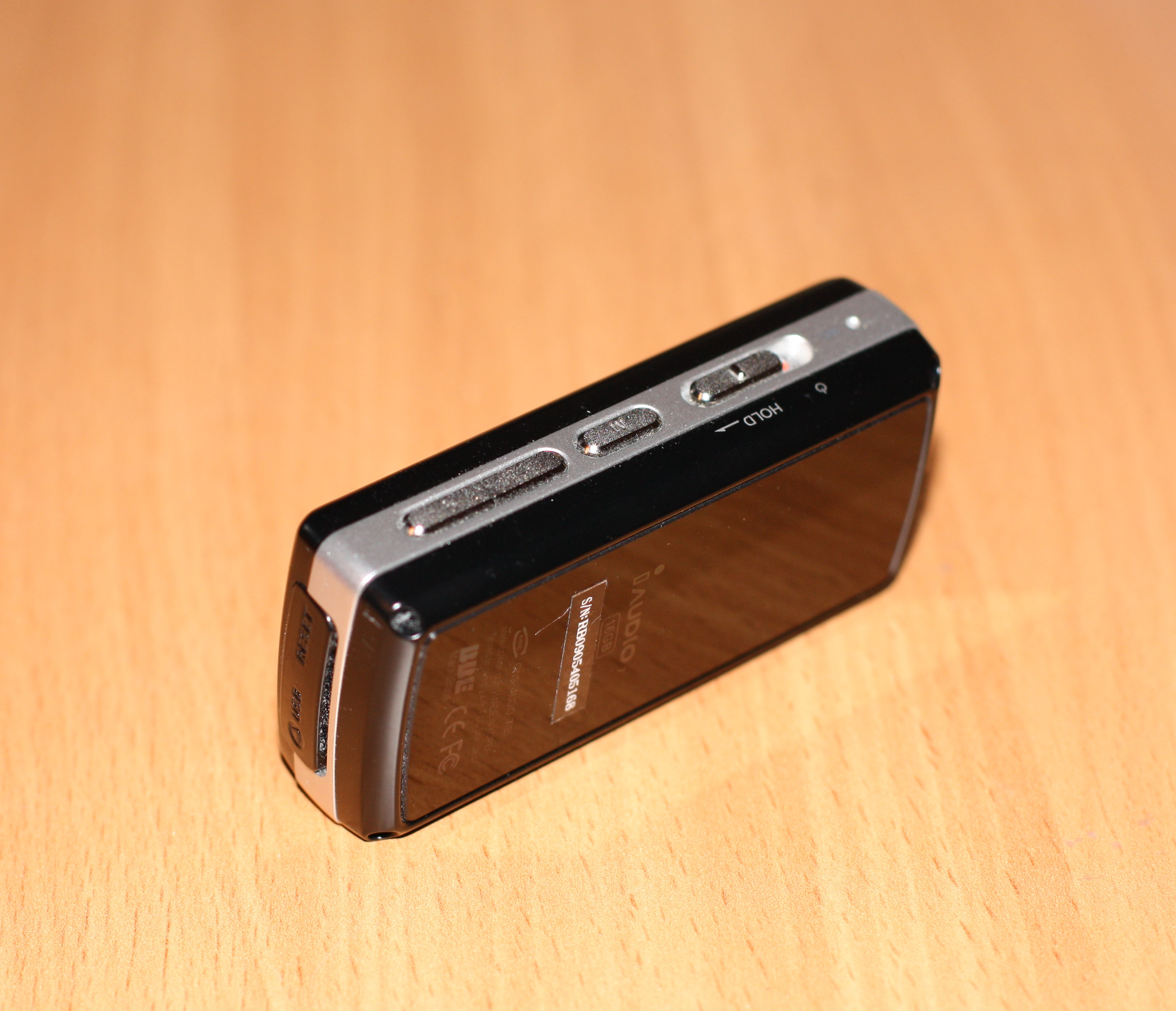 Cowon iAudio 7 16Gb